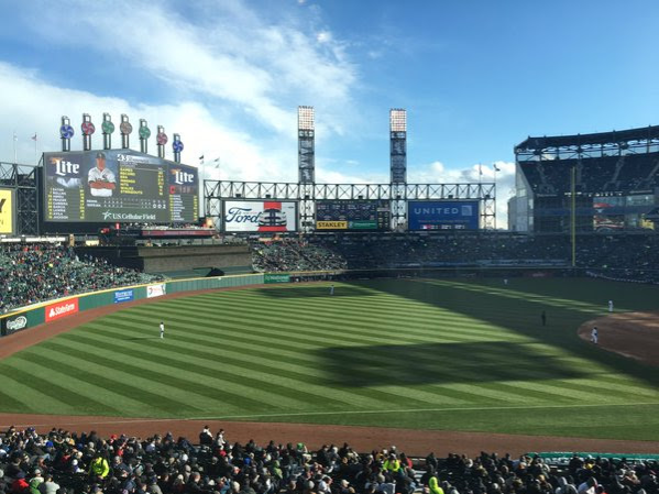 2016 renovations with new HD screen